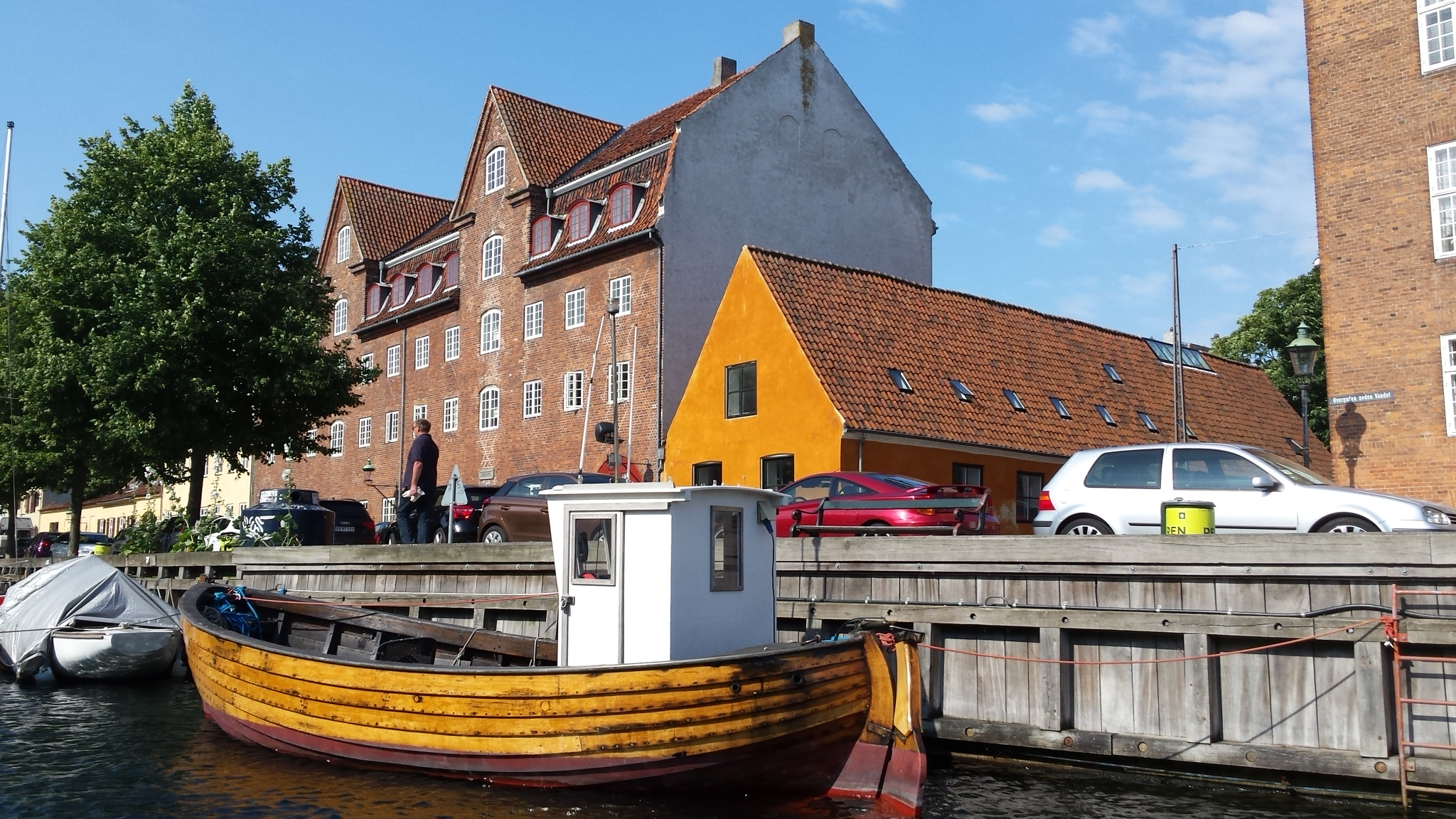 Wildersgade Barracks viewed from Christianshavns Kanal in Copenhagen, Denmark